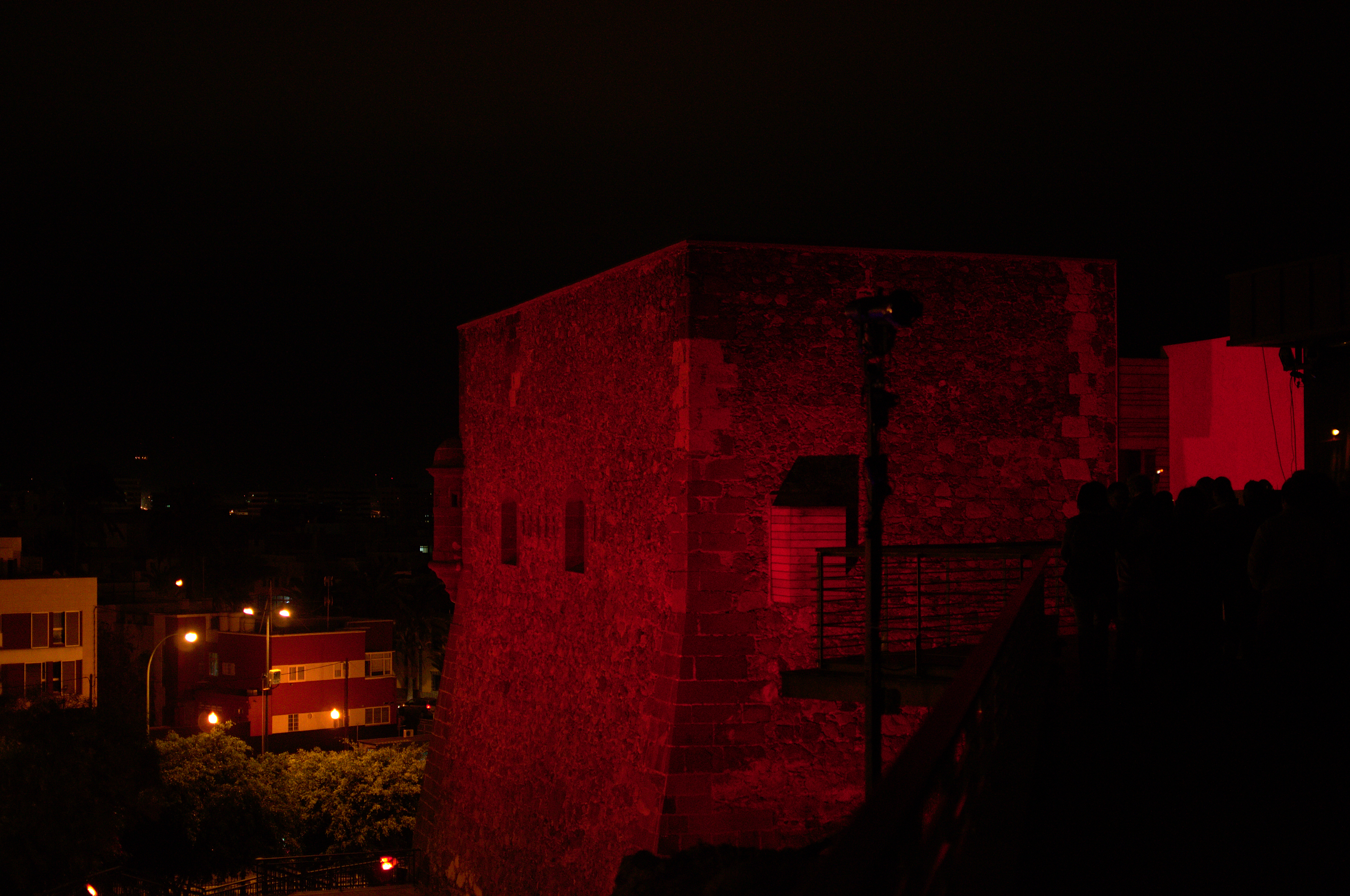 Castle of Mata during the night of International Museum Day in 2016 (may 18). Guided tour which tells to visitants the attack of Pieter van Der Does.